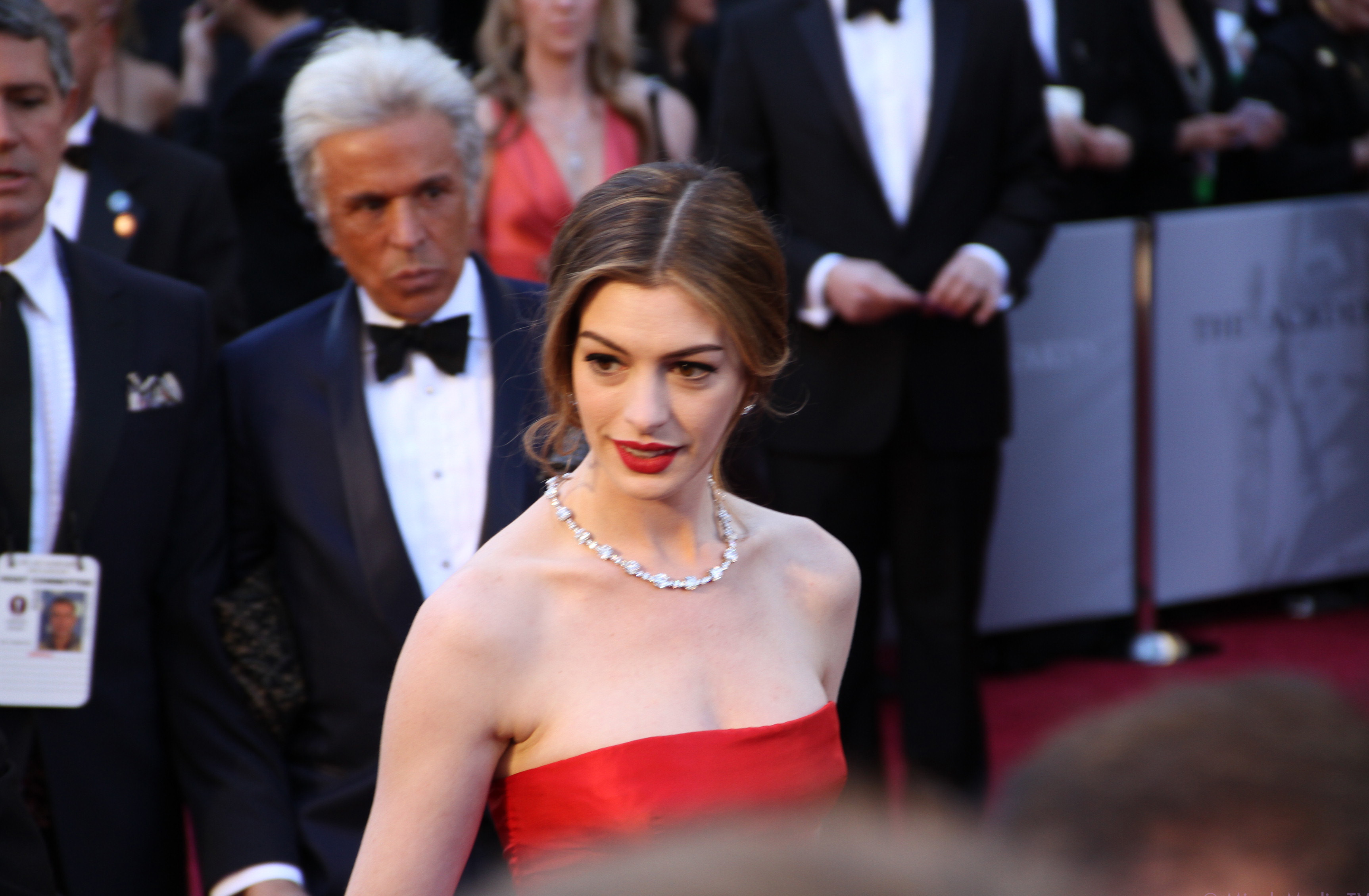 Anne Hathaway on 83rd Academy Awards red carpet